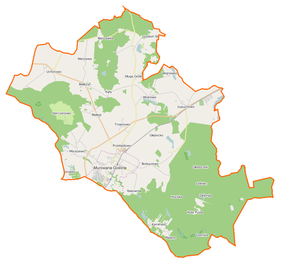 Map of Gmina Murowana Goślina, PolandThis map of Murowana Goślina (gmina) was created from OpenStreetMap project data, collected by the community. This map may be incomplete, and may contain errors. Don't rely solely on it for navigation.